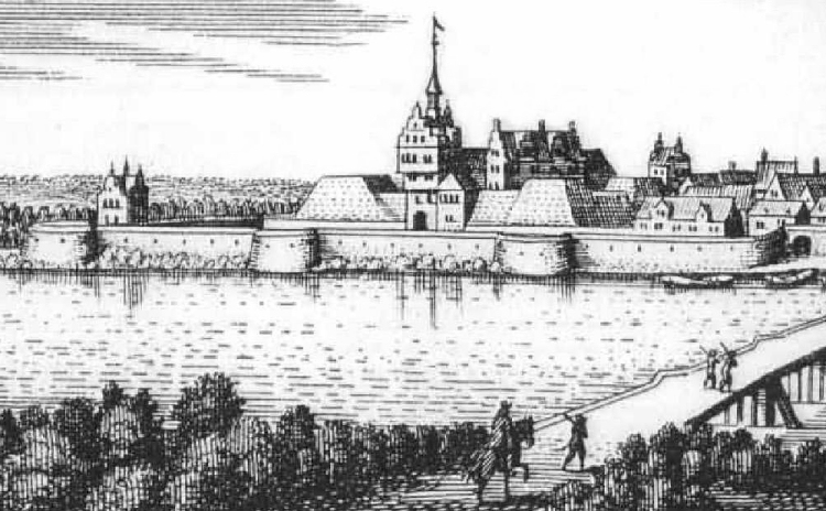 This is a scan of the historical document:Publication date 1647publication_date QS:P577,+1647-00-00T00:00:00Z/9Source